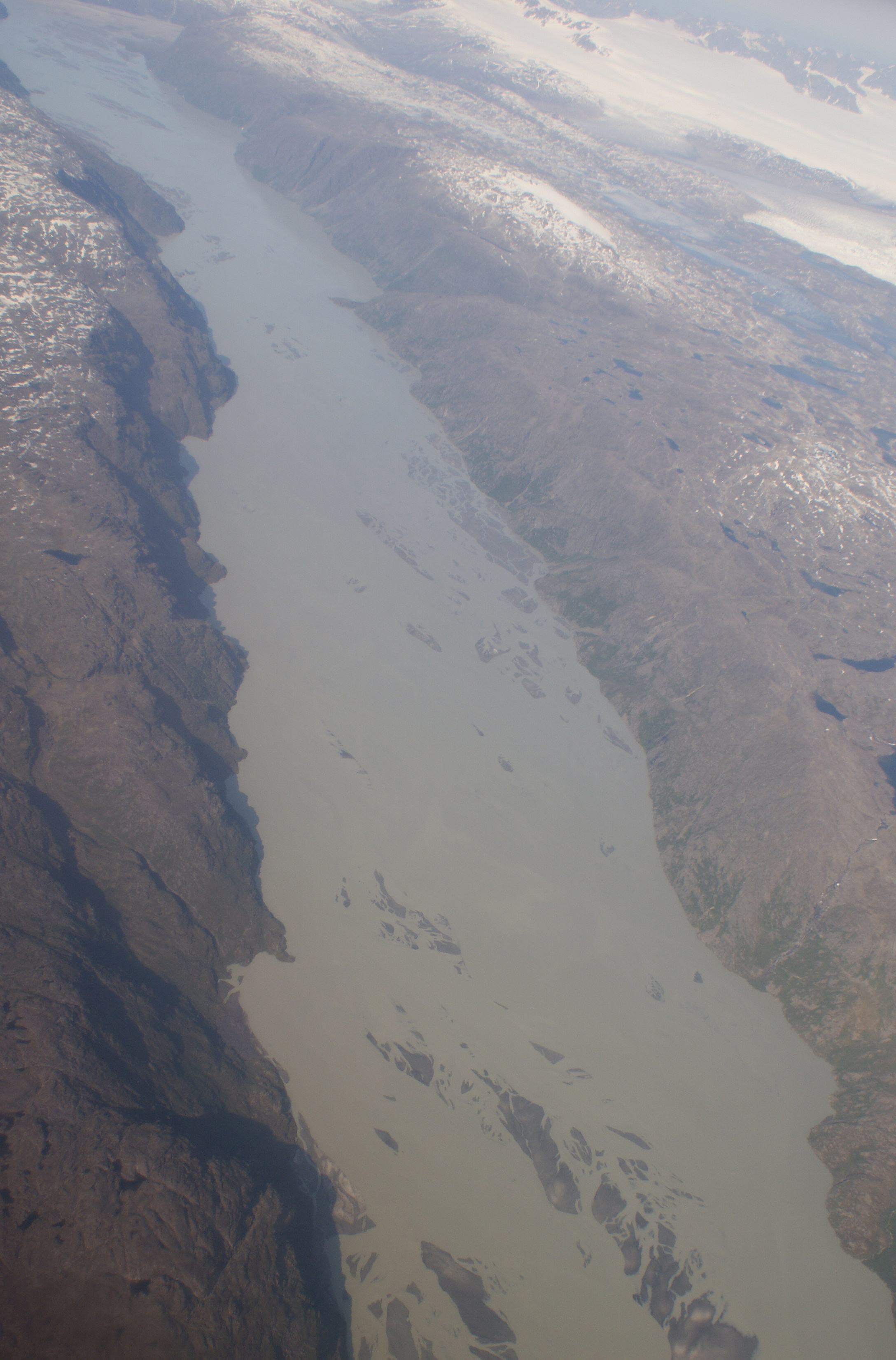 Aerial view of Majorqaq, a meltwater river (and valley of the same name) in the Qeqqata municipality in central-western Greenland. Photographed in very poor visibility conditions from the Air Greenland de Havilland Canada Dash-7 "Sapangaq" during the Nuuk-Kangerlussuaq flight.